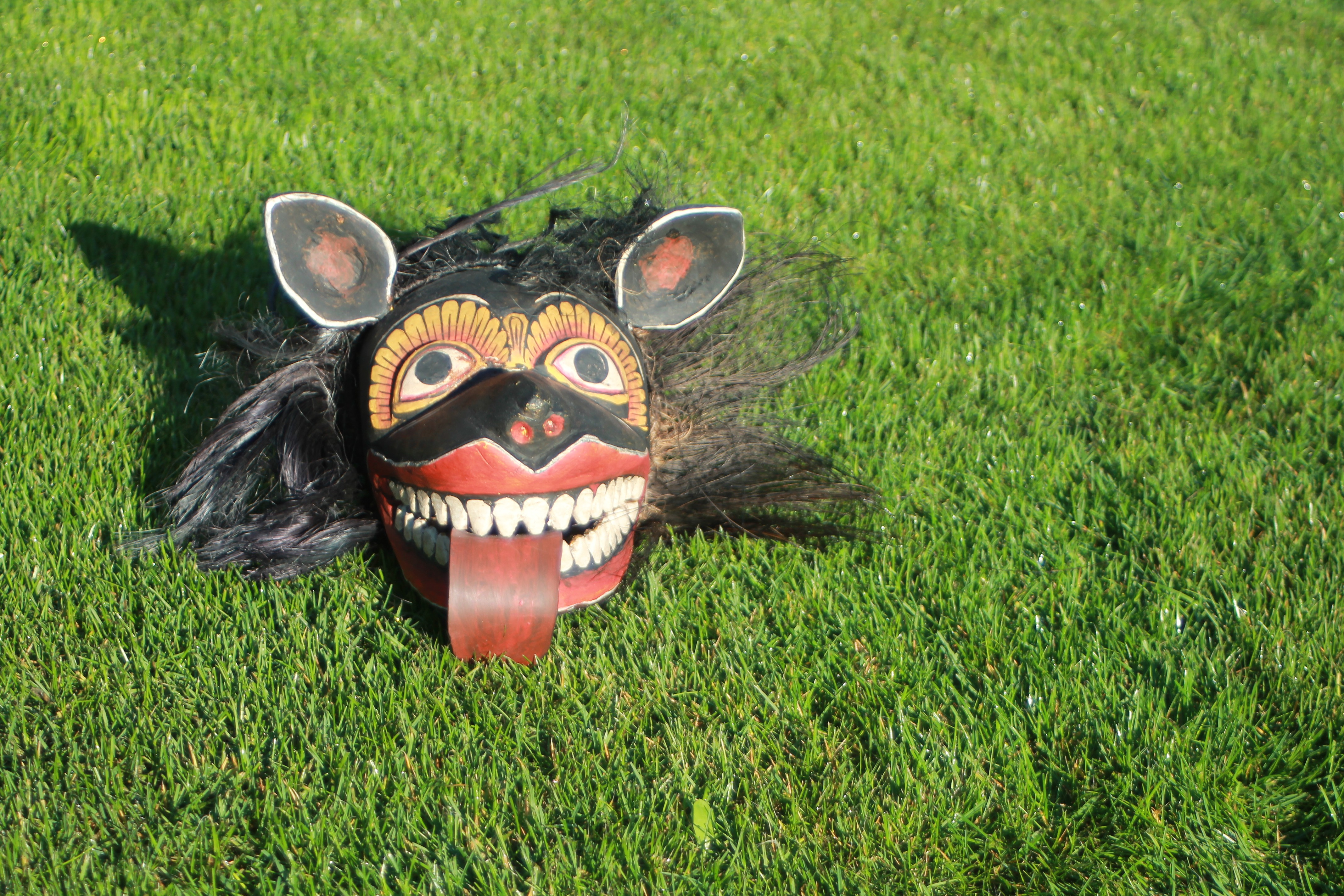 Mask of the demon Maha Sohona Yakka from Ambalangoda Masks Museum (Sri Lanka). It is used in the Tovil healing ritual (the taming of the demons).